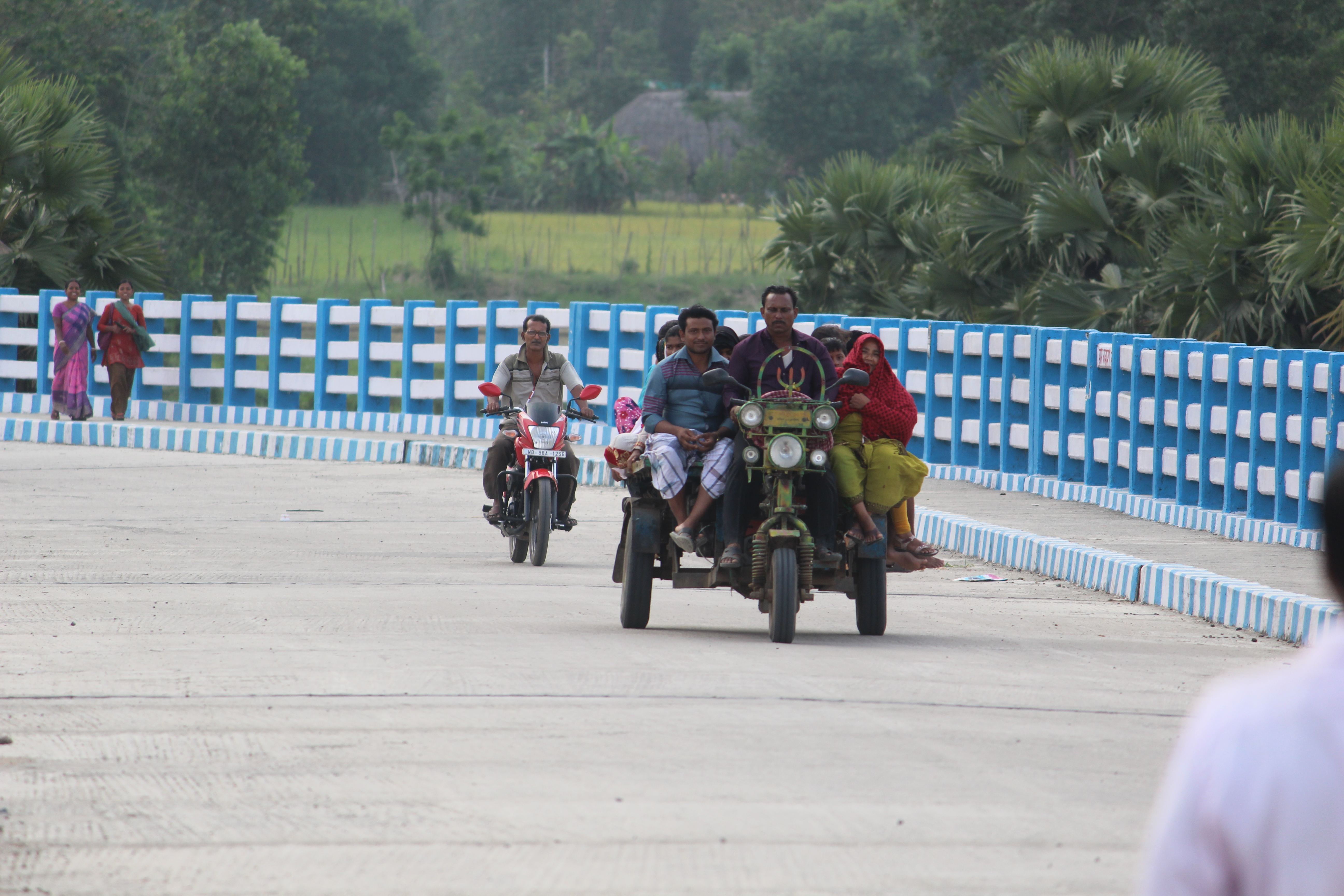 This is one of the frequently taken and convenient mode of transport within Narayanpur for short distances.